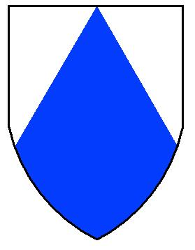 coat of arms - Brock 'by Estrup' is Jutland Uradel (-1340-1625). They took the name after Niels Brock family.